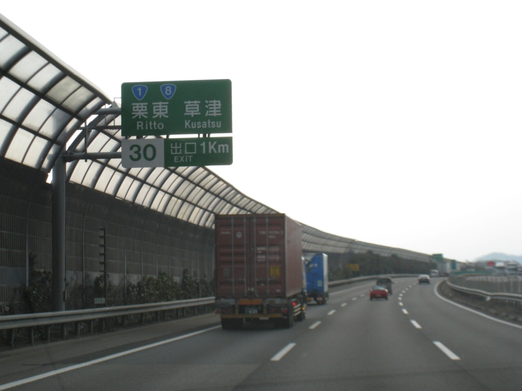 sign of Ritto interchange